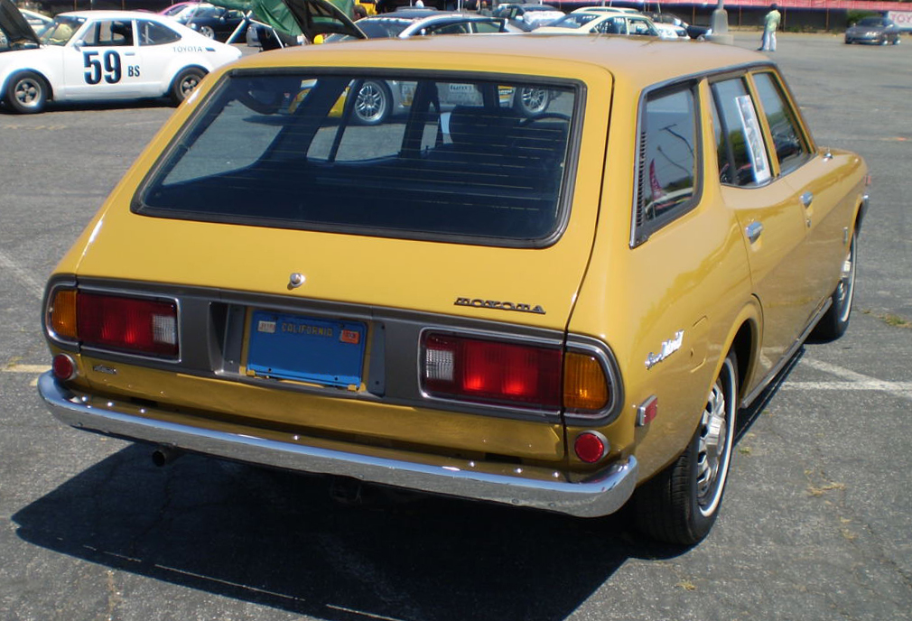 Second generation Toyota Corona Mark II Station Wagon (US)